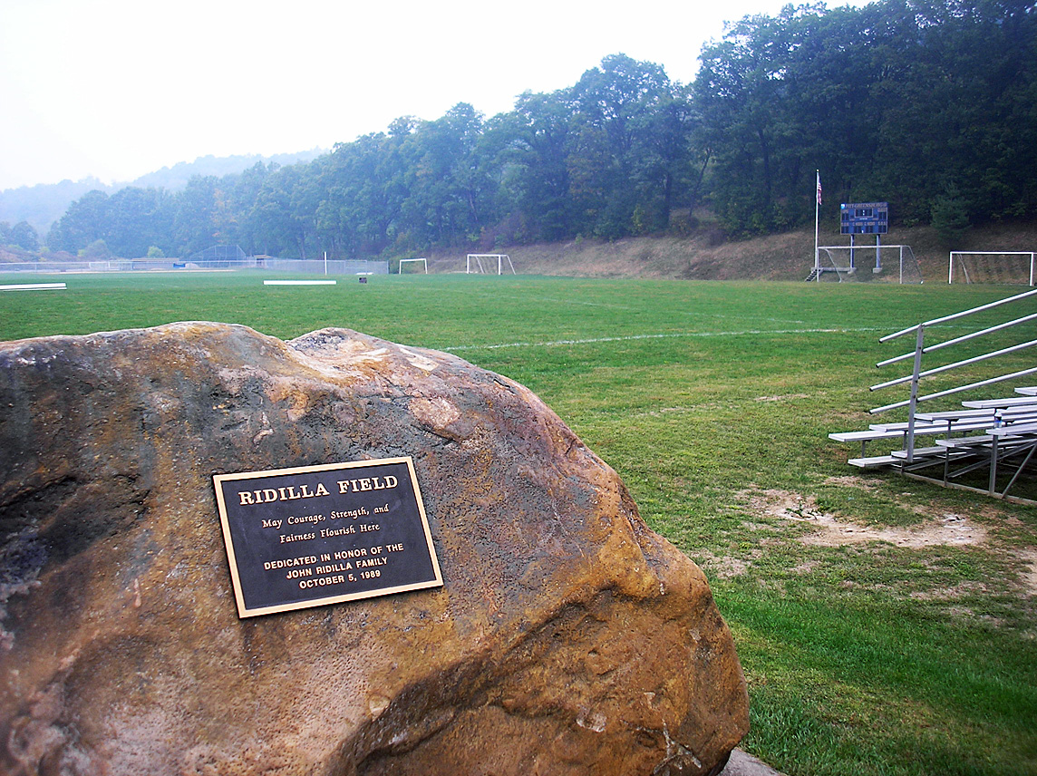 Ridilla athletic fields at the University of Pittsburgh at Greensburg